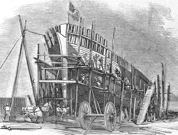 USS Seneca being built at New York, 1861. Photo # NH 59372